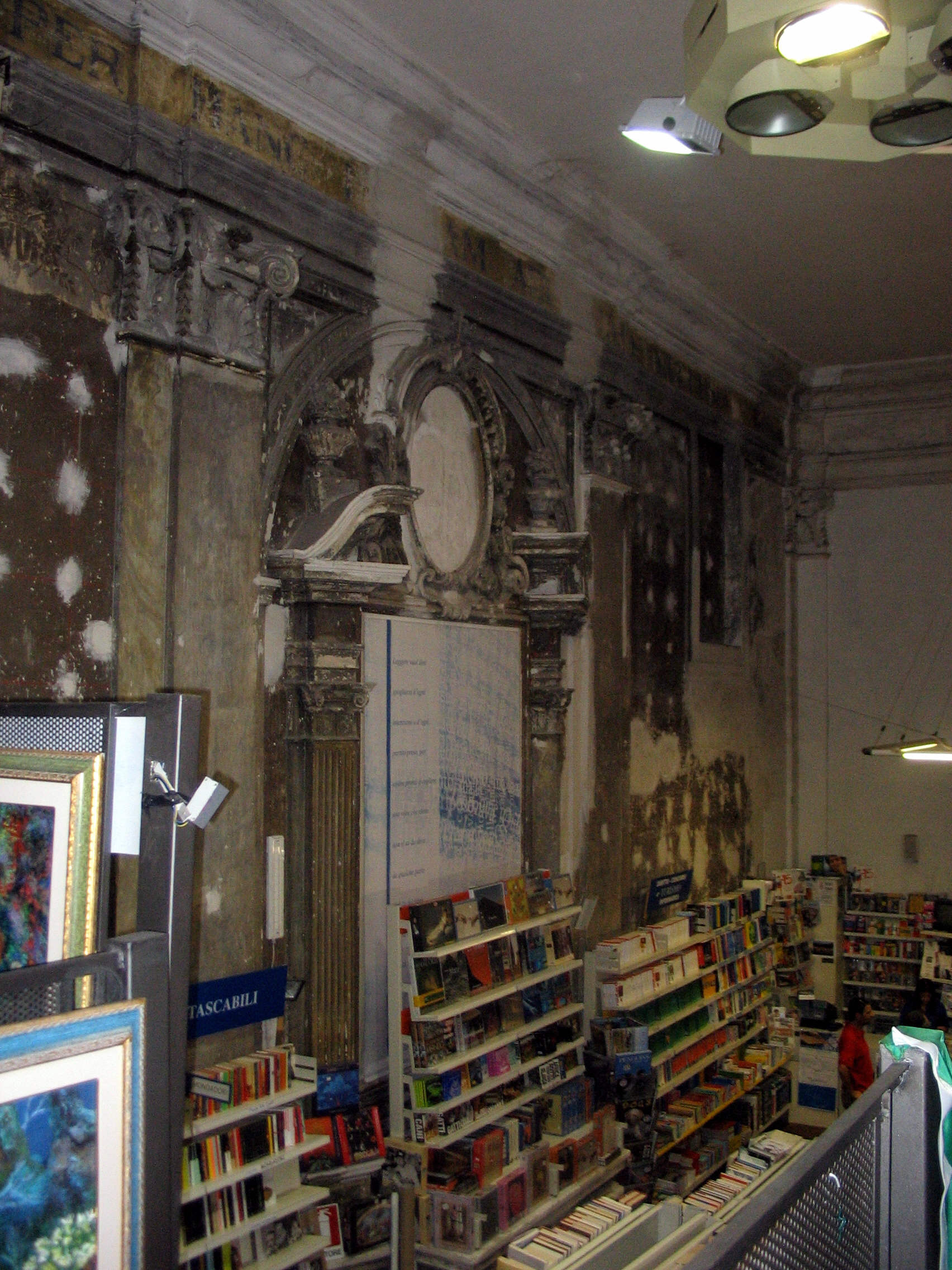 San Pietro (ex Church) - Interiors - Rieti, Lazio, Italia